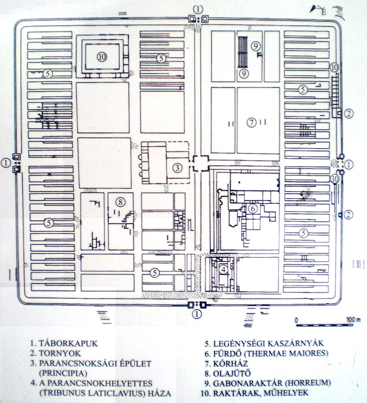 Plan of the military camp in Aquincum, Budapest, Hungary